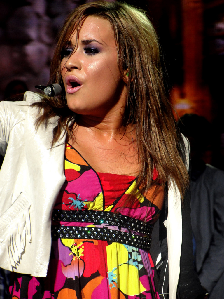 Jonas Brothers Live In Concert and The Cast of Camp Rock 2, September 2nd, 2010.